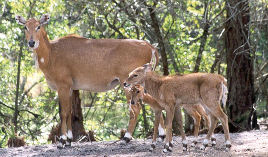 Nilgai Antelope (Boselaphus tragocamelus) female and baby closeup